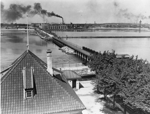 Slusen in the Stdhavnen area of Copenhagen, Denmark